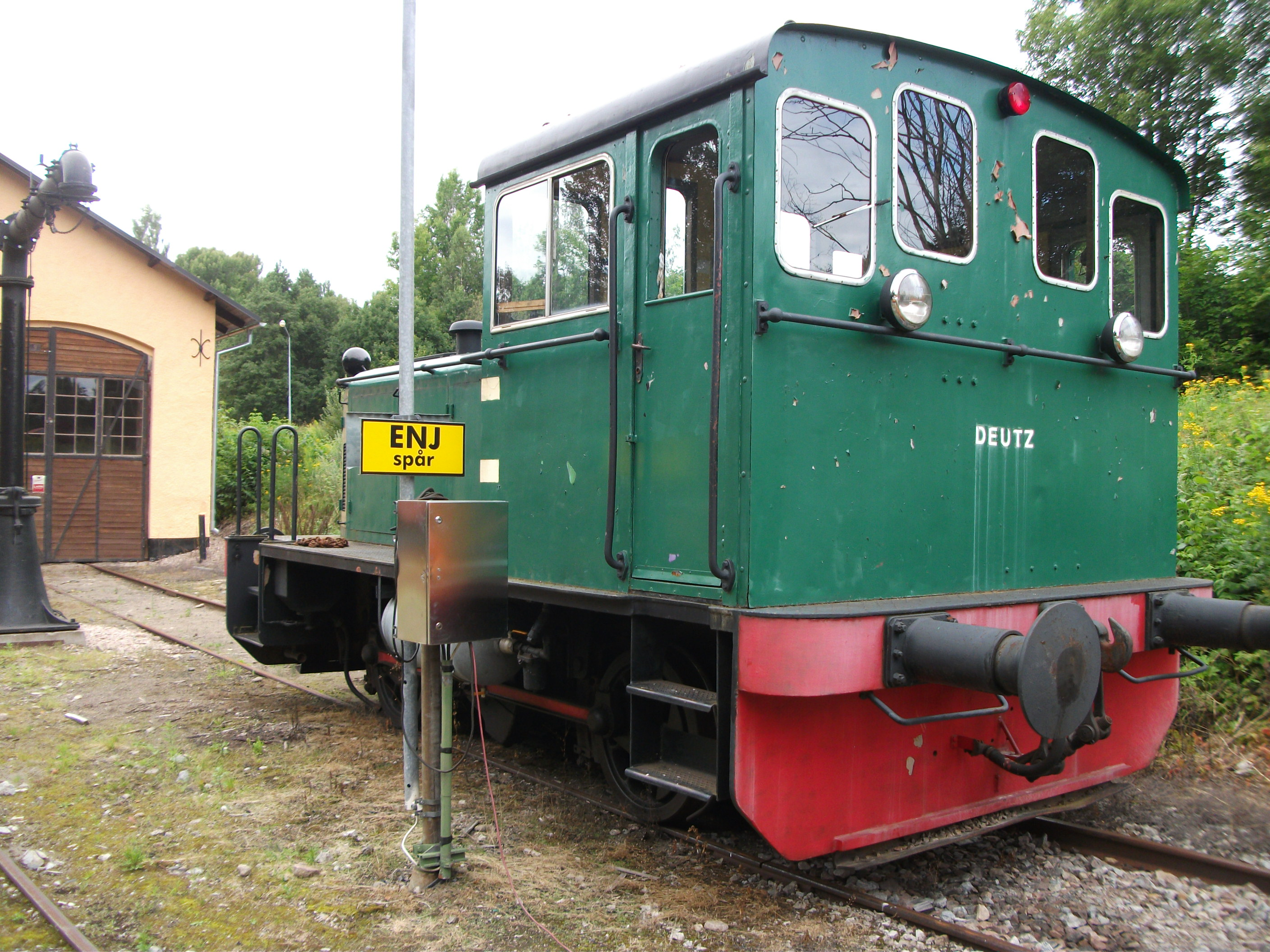 Diesel locomotive 'Grodan' (The Frog) at Kärrgruvan yard on the Engelsberg-Norberg Historic Railway